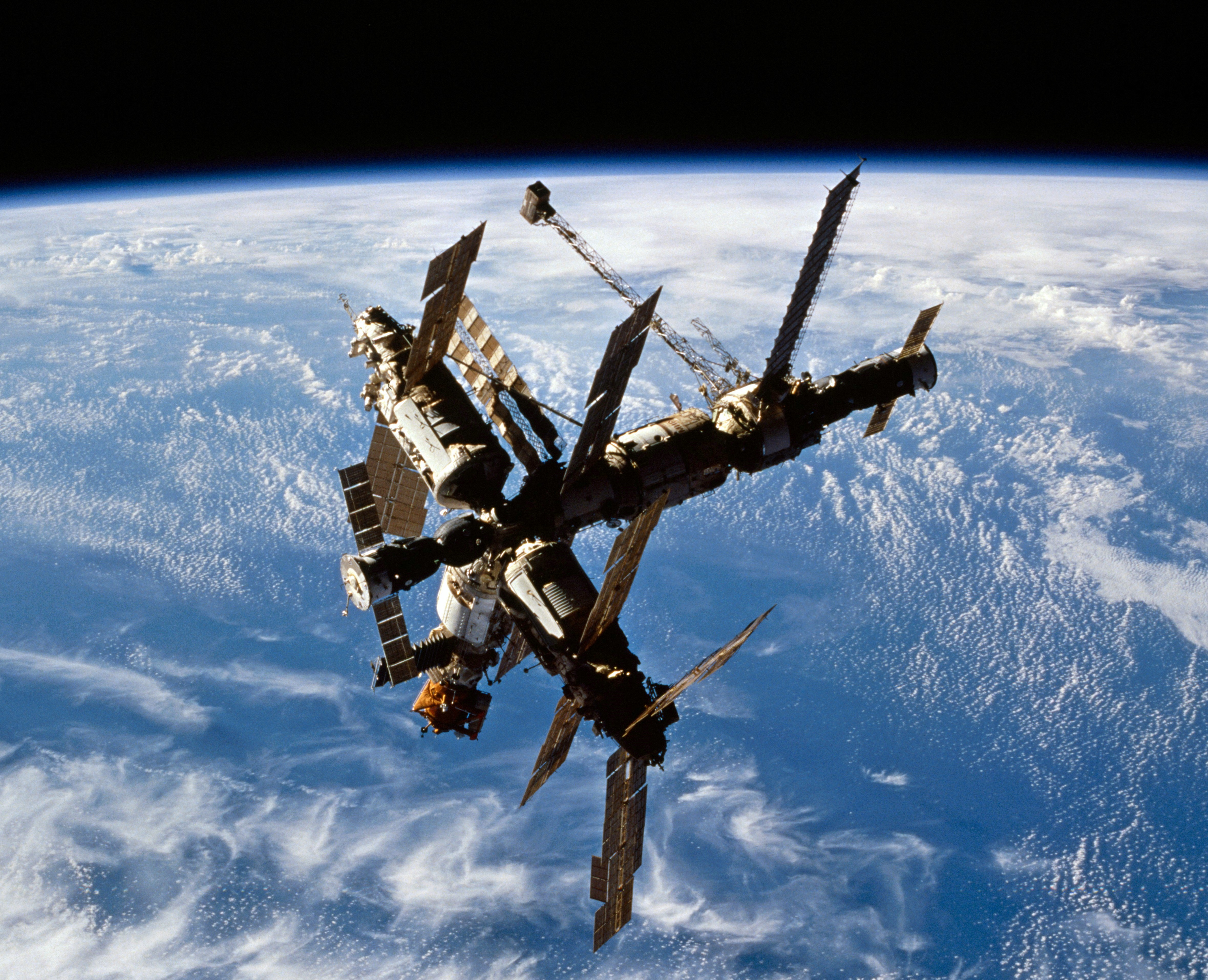 View of the complete Mir Space Station after docking against a dark background (015-9,030), over a portion of the Earth (020-2,026-9), and over Australia (023-5). Identifier: STS074-716-021